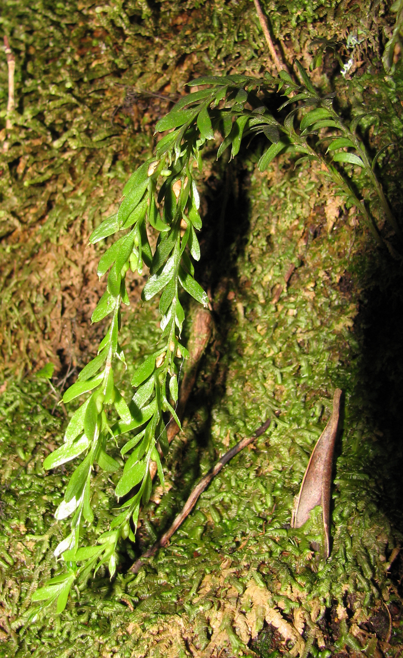 Tmesipteris elongata photographed on the Cockayne Nature Walk near Otira in New Zealand].